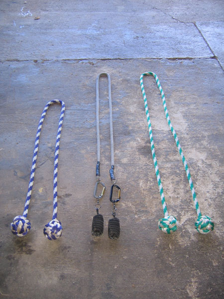 three meteor toys